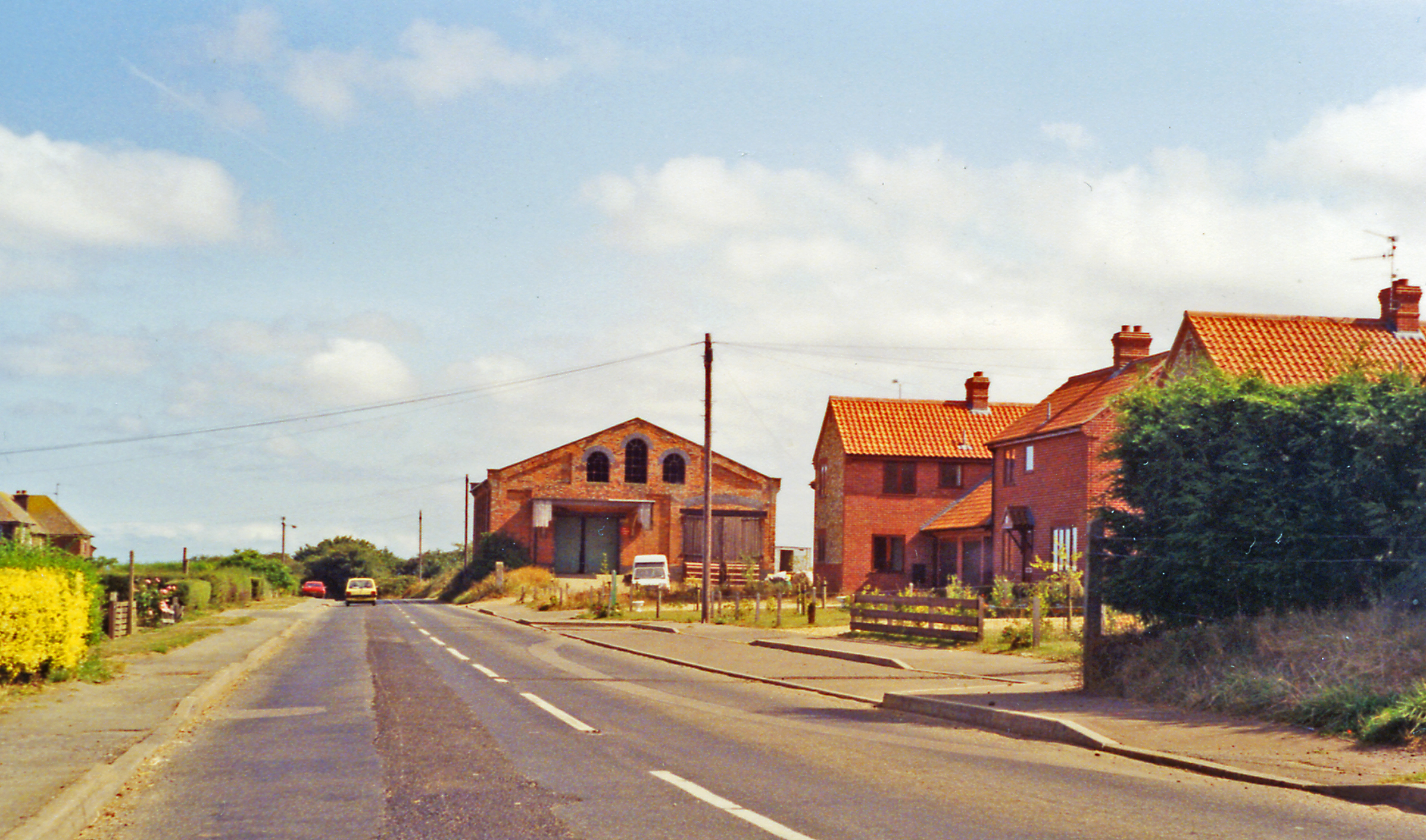 Docking station (remains), 1991. View eastward, towards Wells-next-the Sea: ex-GER Heacham - Wells branch. The line and station were closed 2/6/52, but Heacham - Burnham Market remained for freight until 28/12/64, with Burnham Market - Wells having been abandoned after the great floods of 31/1/53. The substantial goods shed here has lasted into 1991.